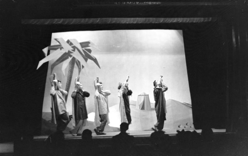 Warsaw Ghetto